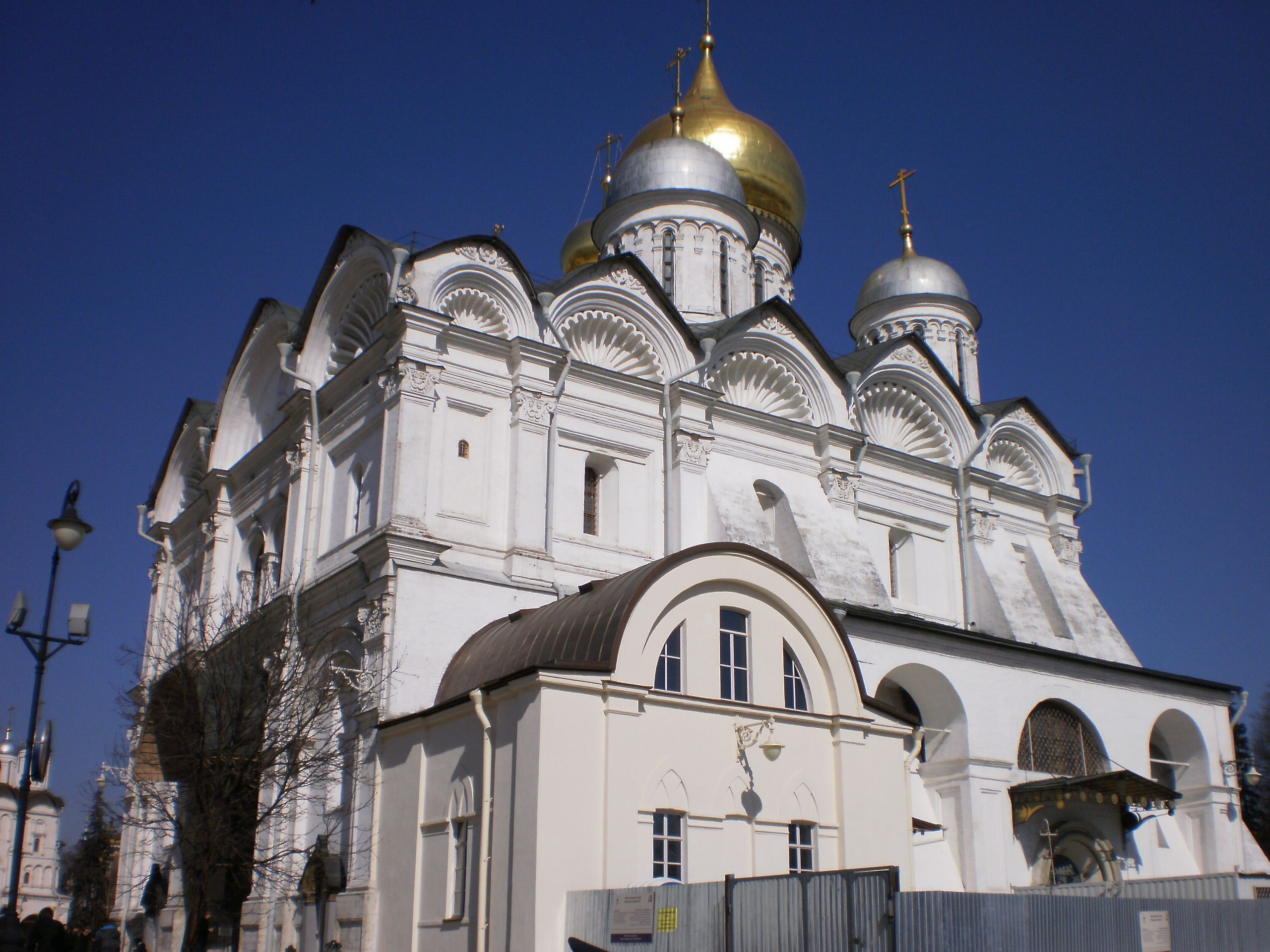 The Cathedral of the Archangel in the Moscow Kremlin